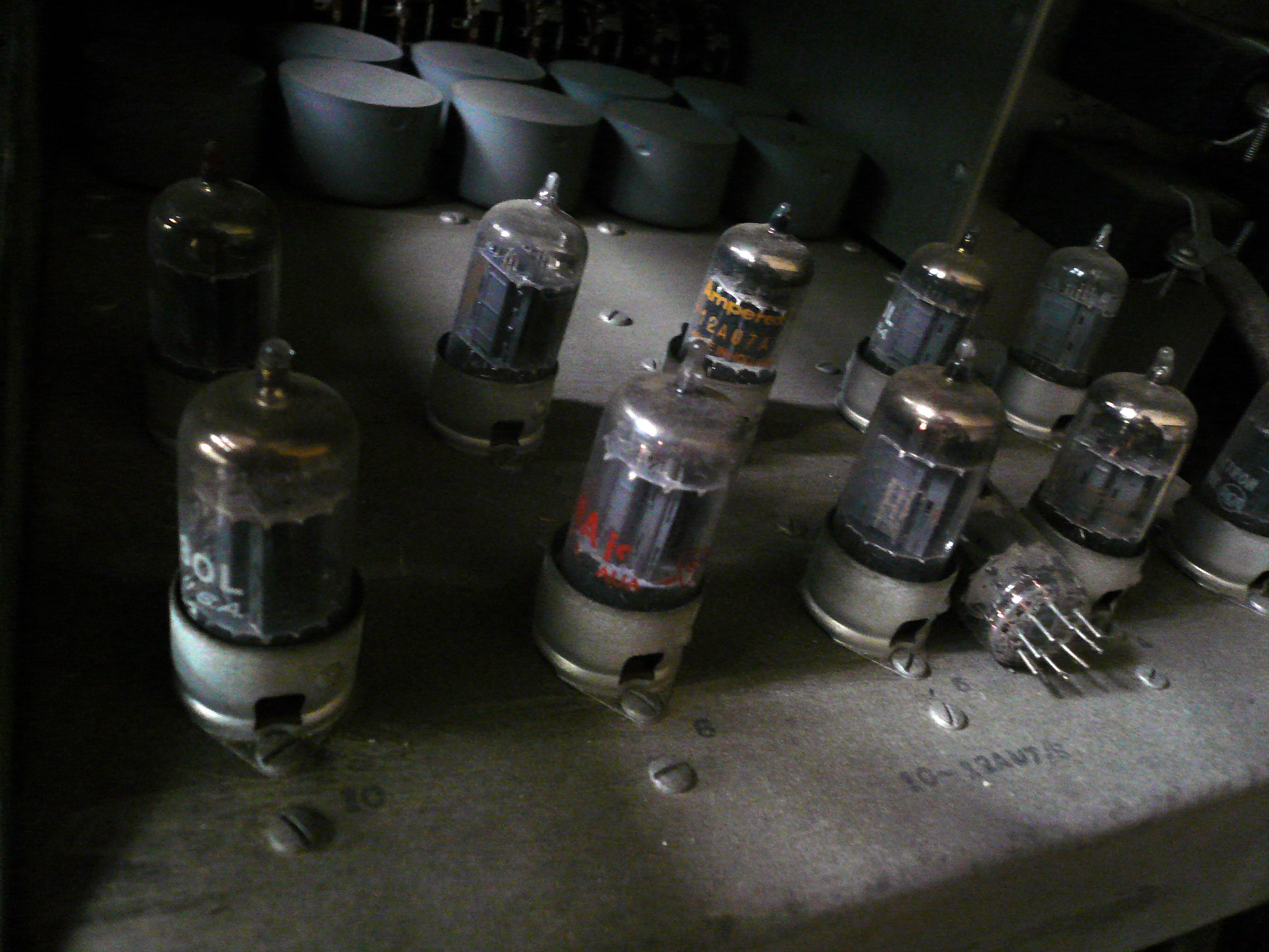 The 'Victor' (nickname of RCA Mark II Sound Synthesizer) that lives up at Columbia University 's Computer Music Center. It was one of the first synthesizers. They thought it would replace the orchestra, but instead it was very difficult to keep consistent. Instead it was given to Columbia which used it to teach avant garde electronic musicians. I was told that Bob Moog worked with it in school.